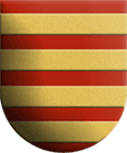 Ferreira family